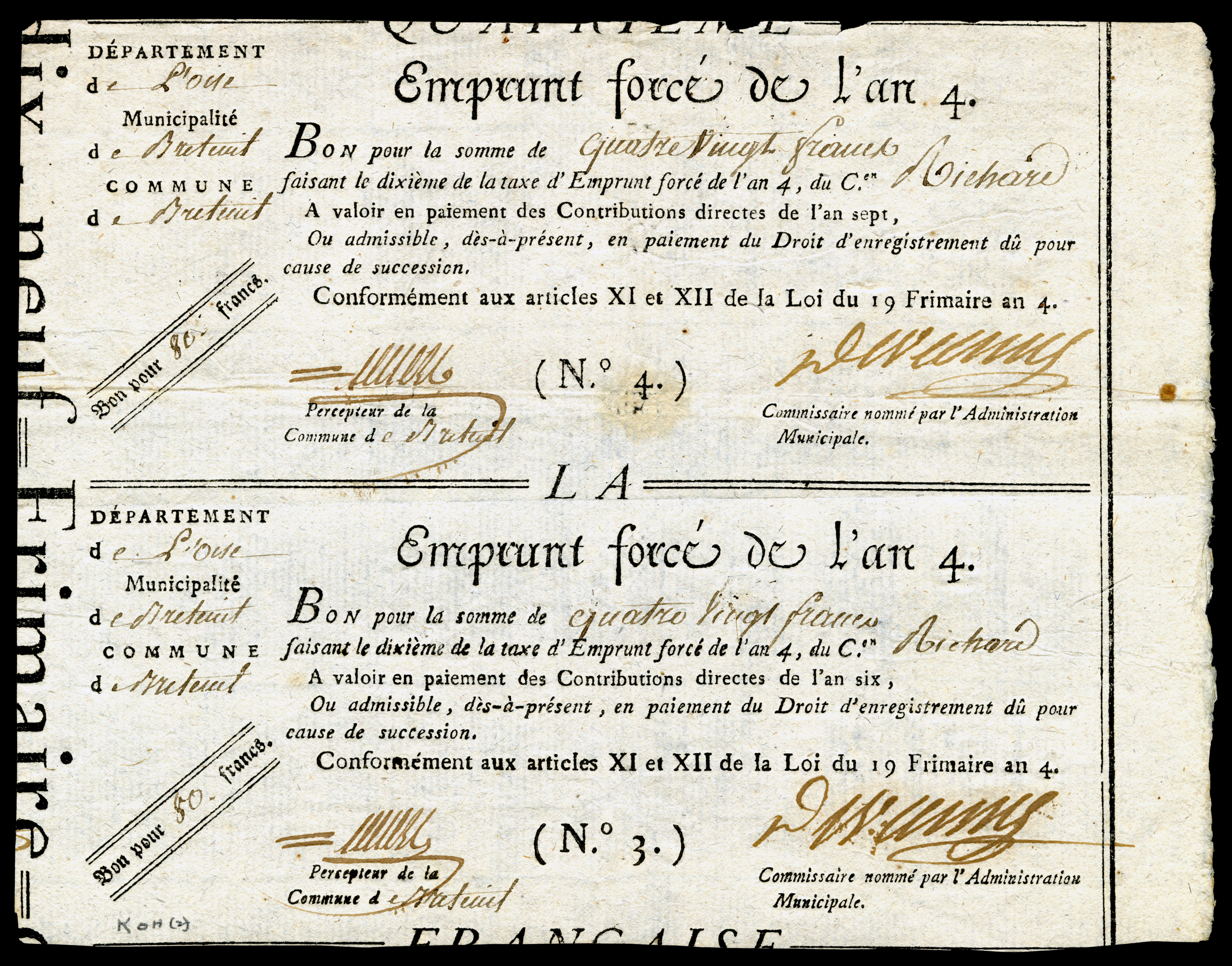 FRA-Emprunt Force (1795)-pair